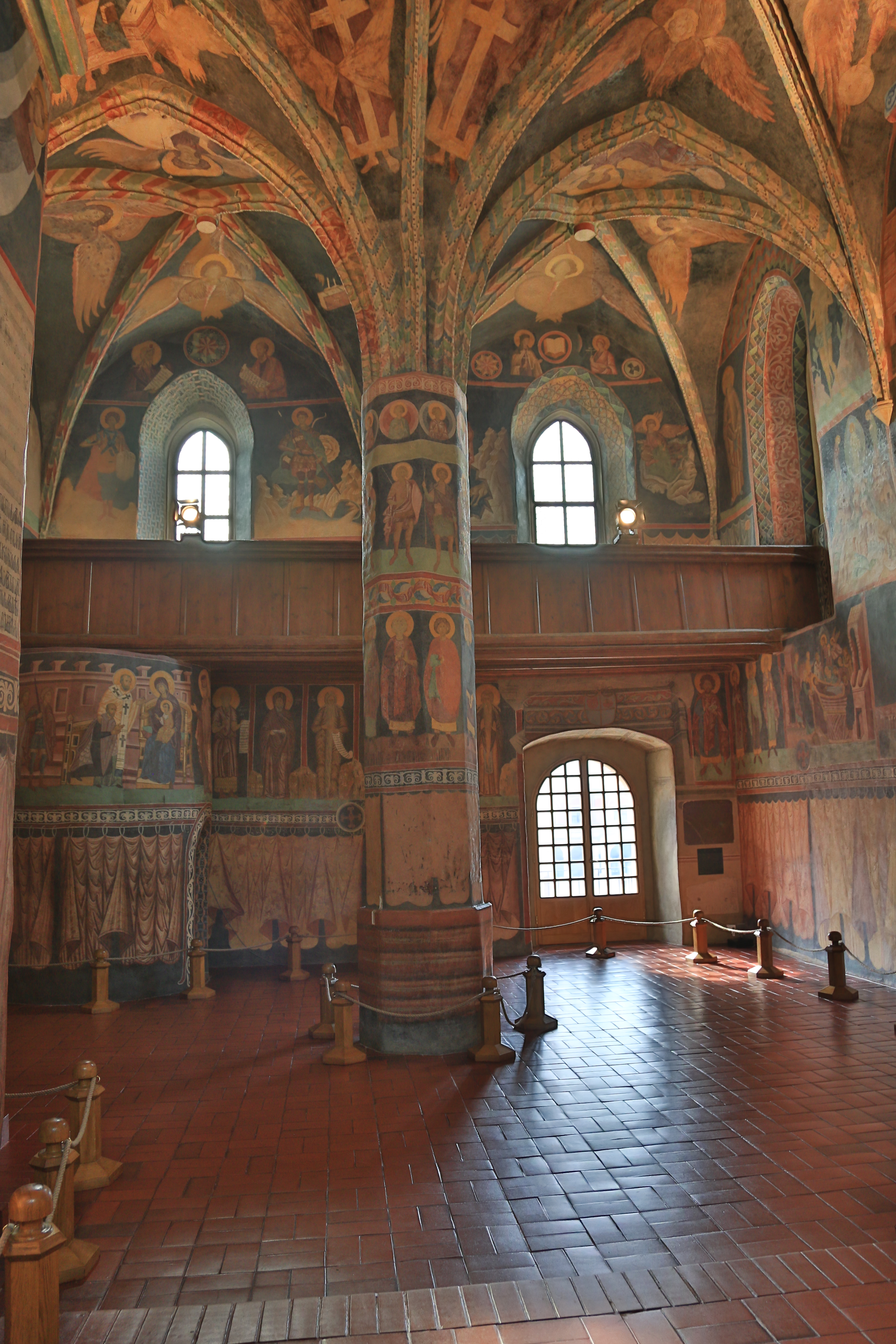 Trinity Chapel in Lublin